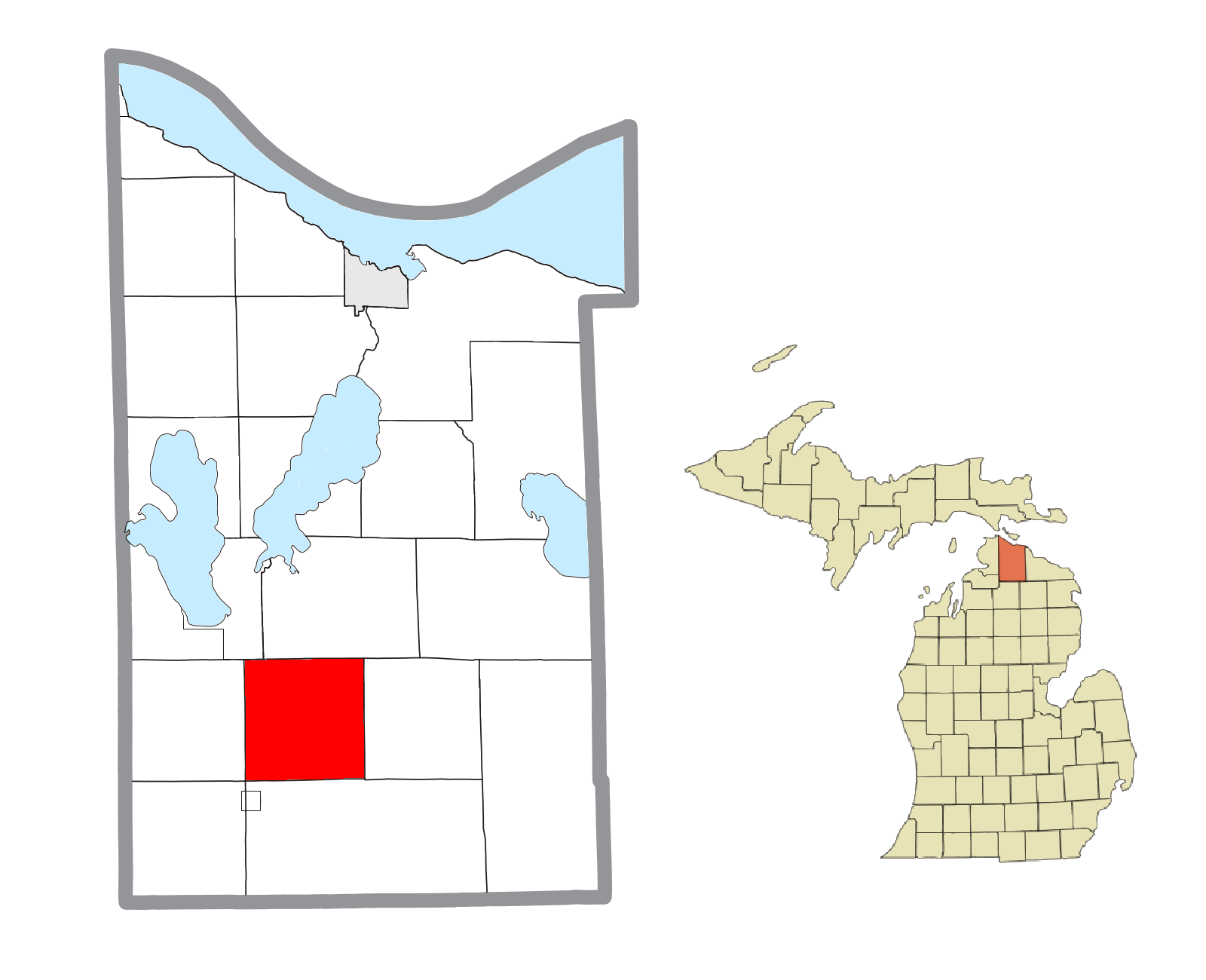 Ellis Township, MI